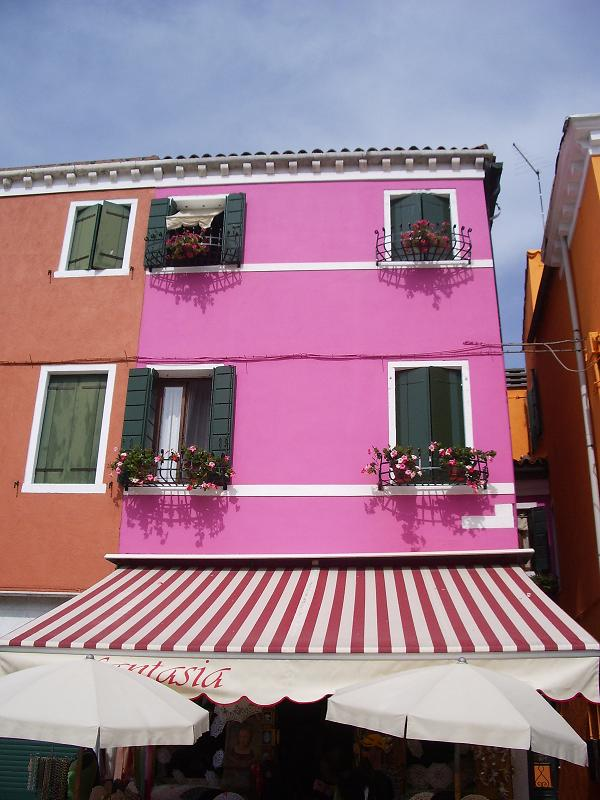 The custom of brightly coloured houses here is really vibrant.ISLAND OF BURANO